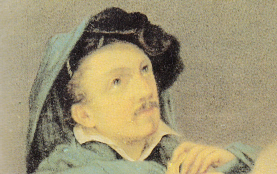 Detail from the painting Apoll mit den Stunden by Georg Friedrich Kersting (see File:Kersting - Apoll mit den Stunden.jpg). Detail shows self portrait of Kersting as a freemason.